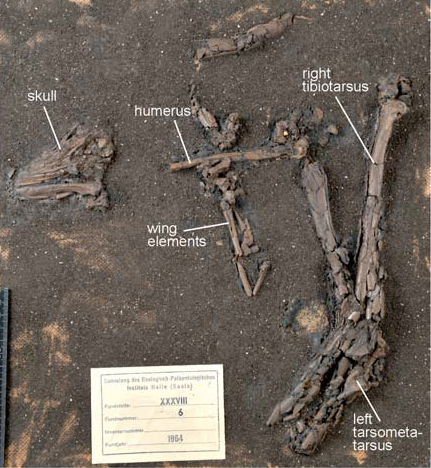 Palaeotis, partial skeleton (GMH XXXVIII-6-1964), discoverd in the Geiseltal fossil site, Saxony-Anhalt, Germany, Middle Eocene